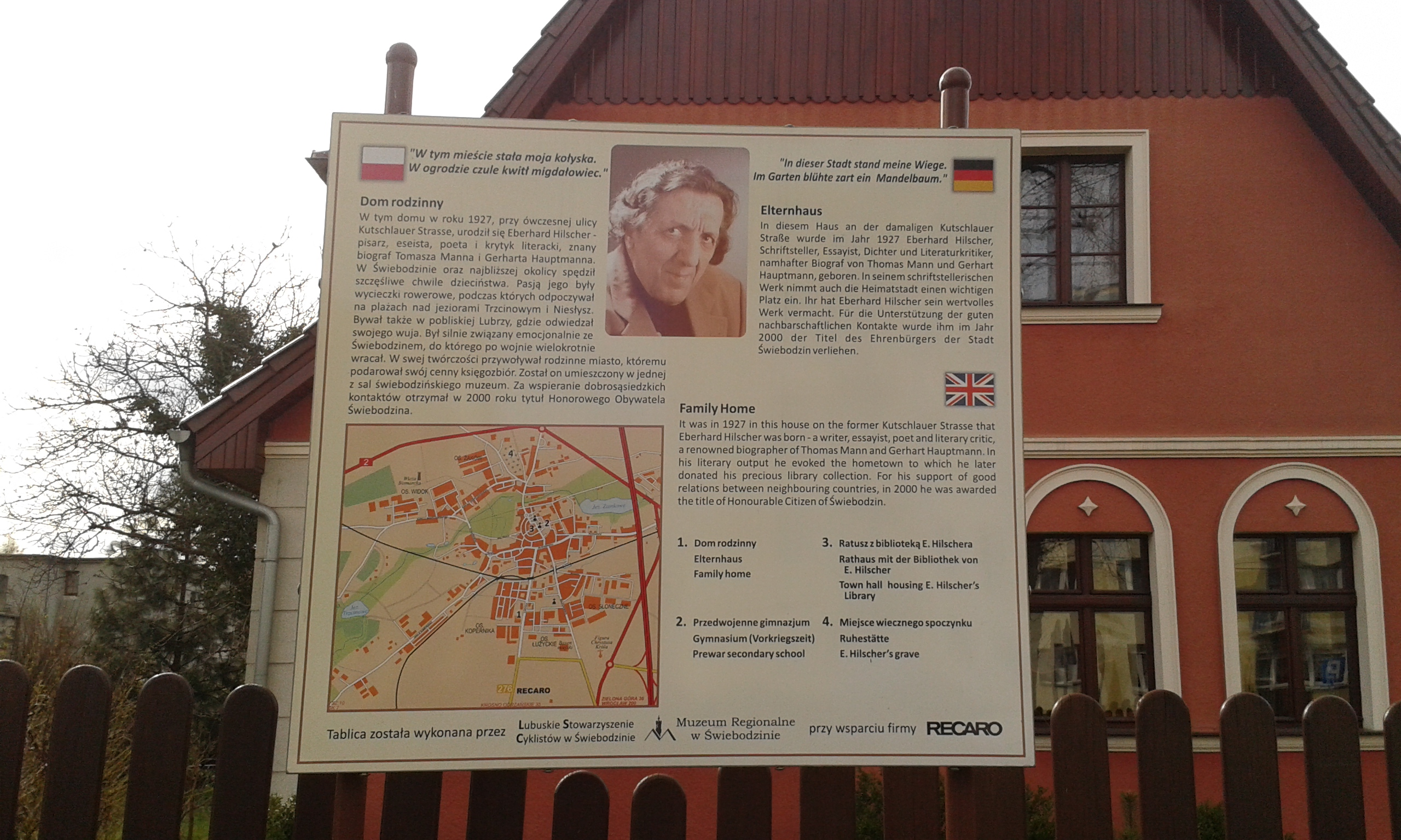 Memory board of Eberhard Hilscher - writer, essayist, poet and literary critic, biographer of Thomas Mann and Gerhart Hauptmann, located on Łużyckie Street, Świebodzin, Poland